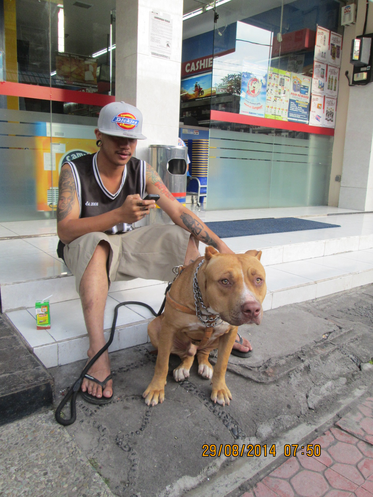 A purebred pitbull terrier with its owner .A very docile pet compared to the ferocity associated with this breed of dogs.